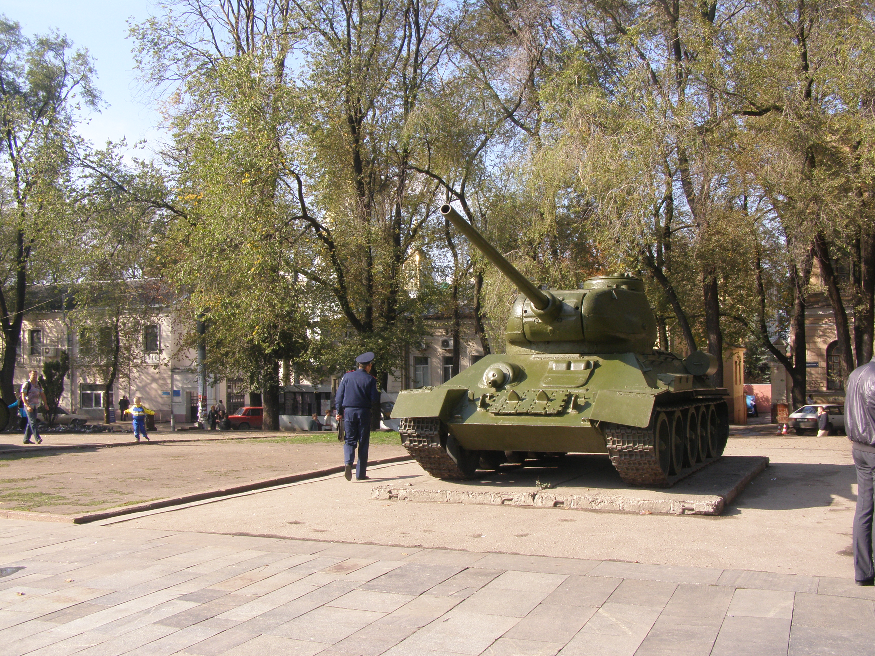 Т-34-85 in Kharkiv